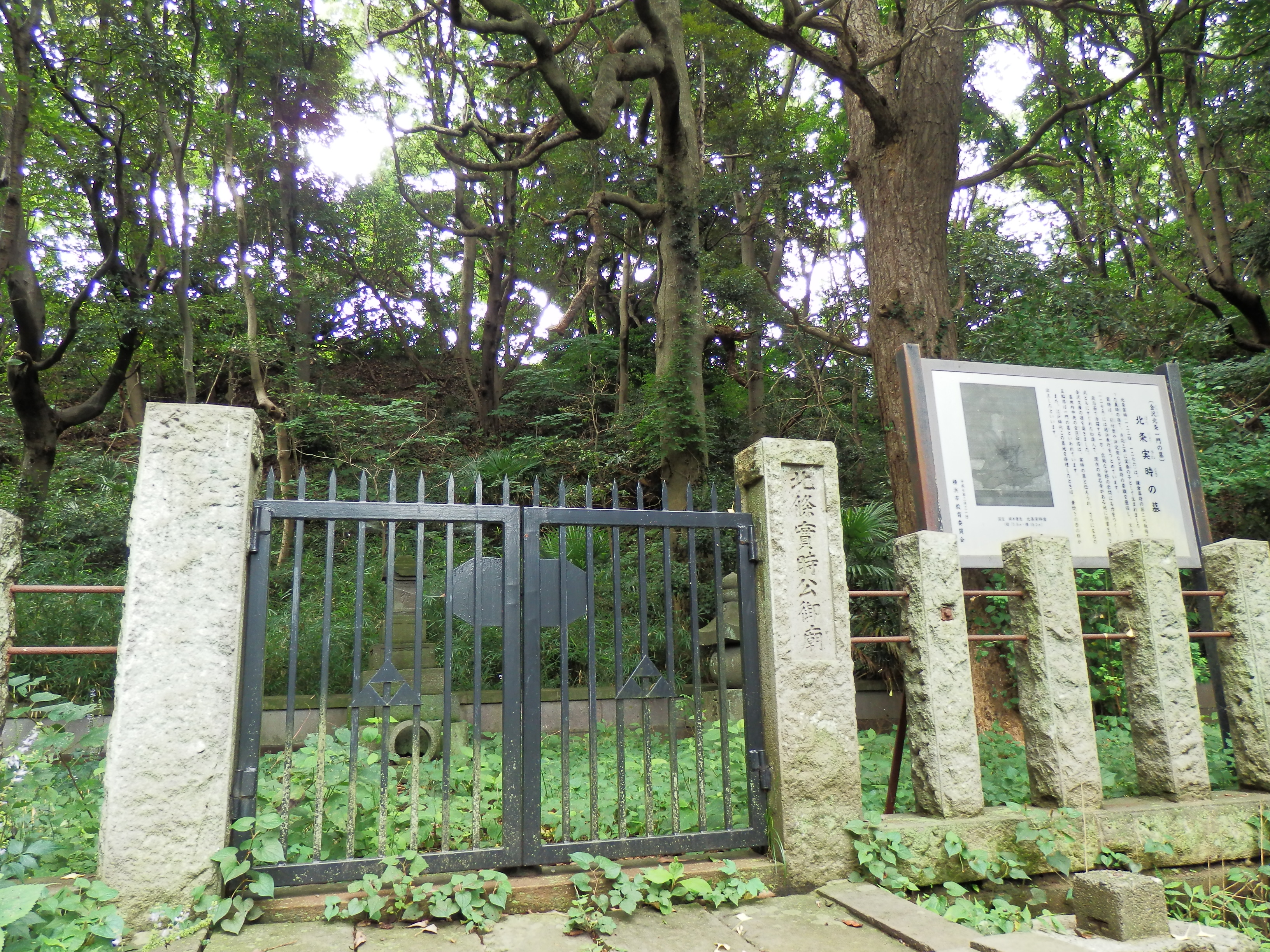 The tomb of Hōjō Sanetoki, in Shōmyō-ji, Yokohama, Kanagawa, Japan